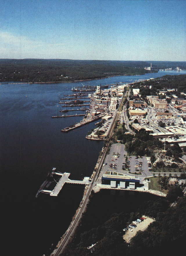 Aerial view of the U.S. Naval Submarine Base New London, in Groton, Connecticut (USA), circa in 1990.